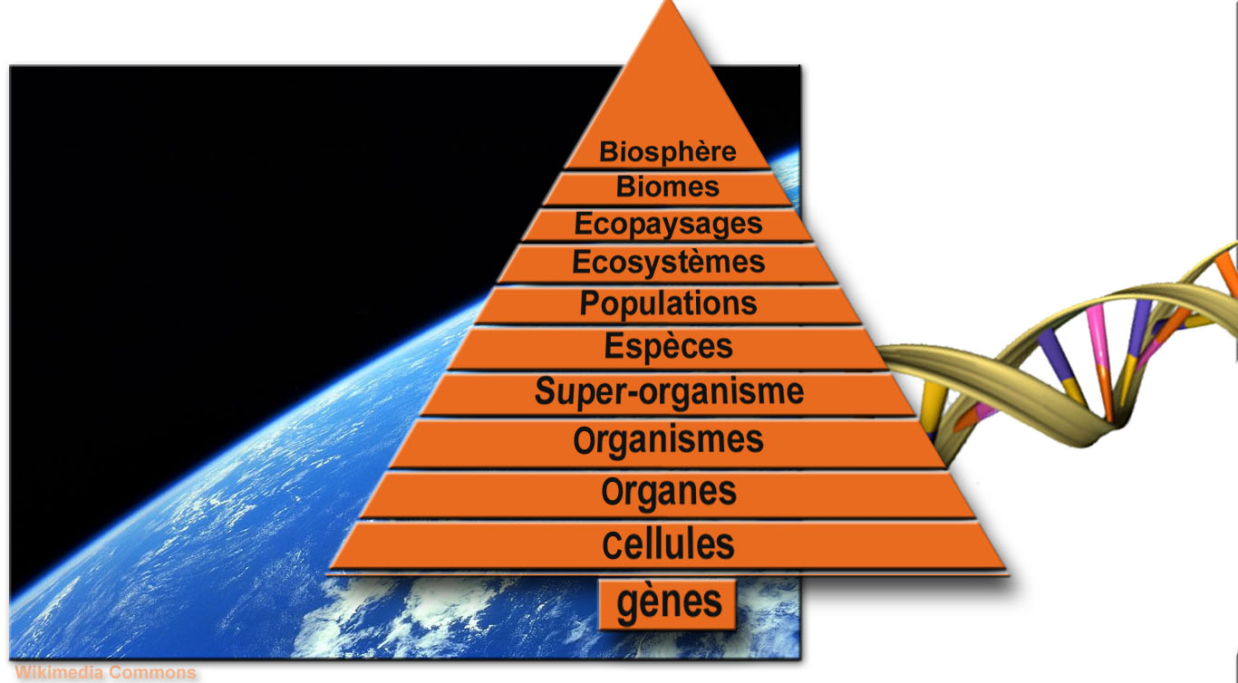 One of the many ways to represent the scales of the Living (gene and DNA in the biosphere without which the oxygen and thus the ozone layer would not exist). The gene is represented in part, because not living as such, but information and support base of the living. the higher in the pyramid, the scale is more comprehensive and the complexity of the system increases